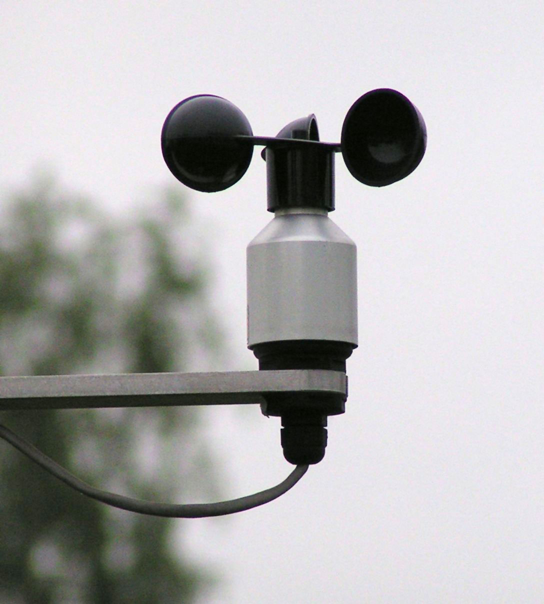 Anemometer